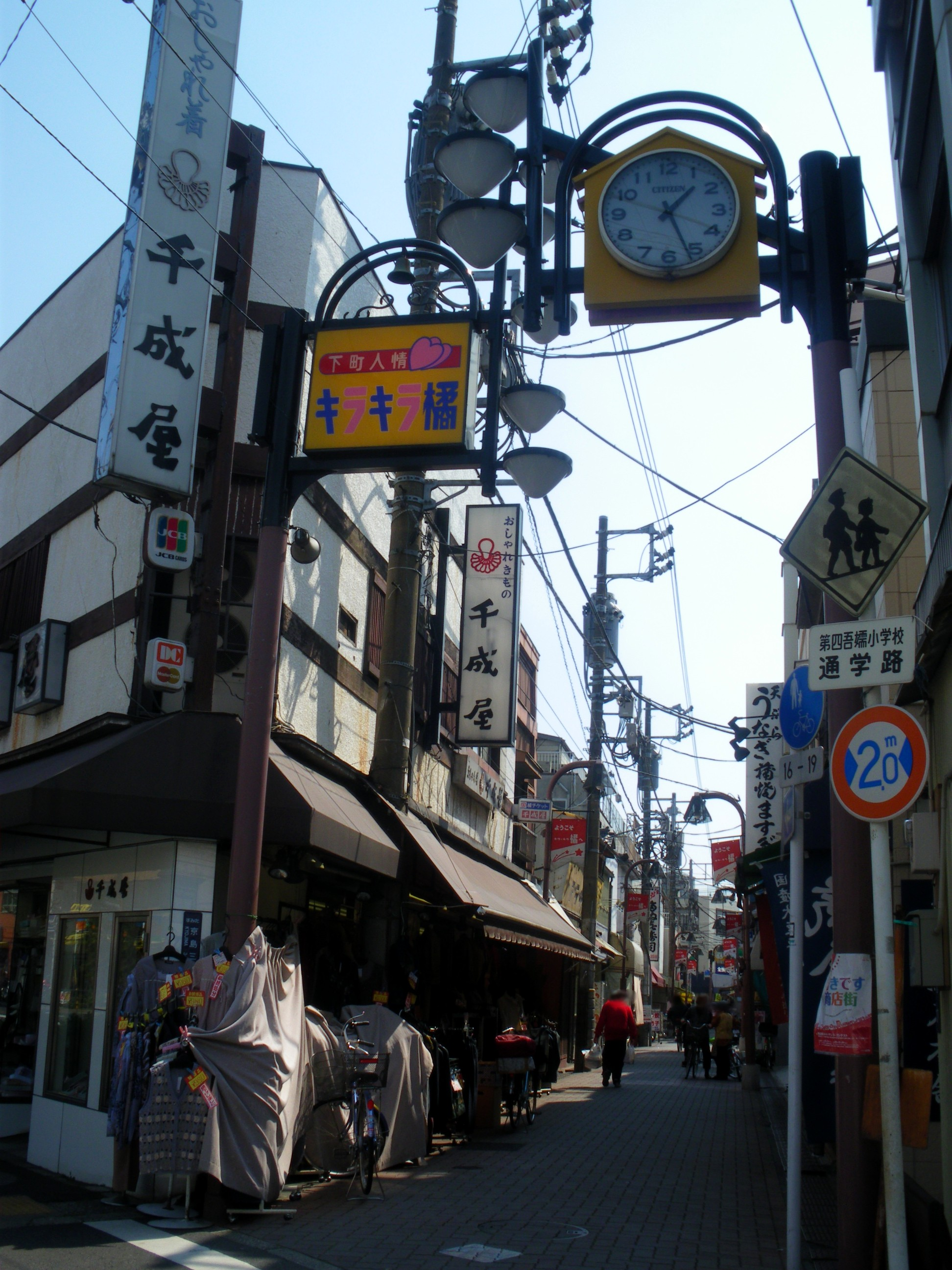 KiraKira Tachibana Shopping Street(Kyojima,Sumida,Tokyo)